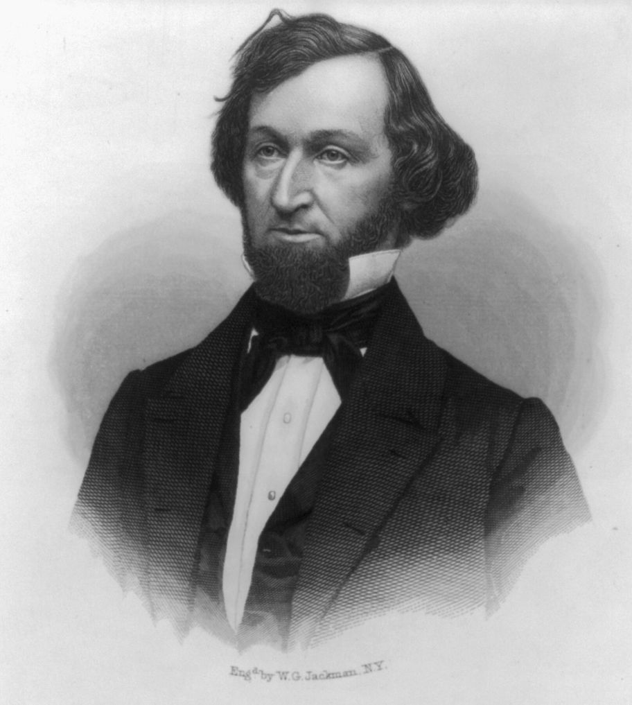 Thomas H. Seymour, Governor of Connecticut